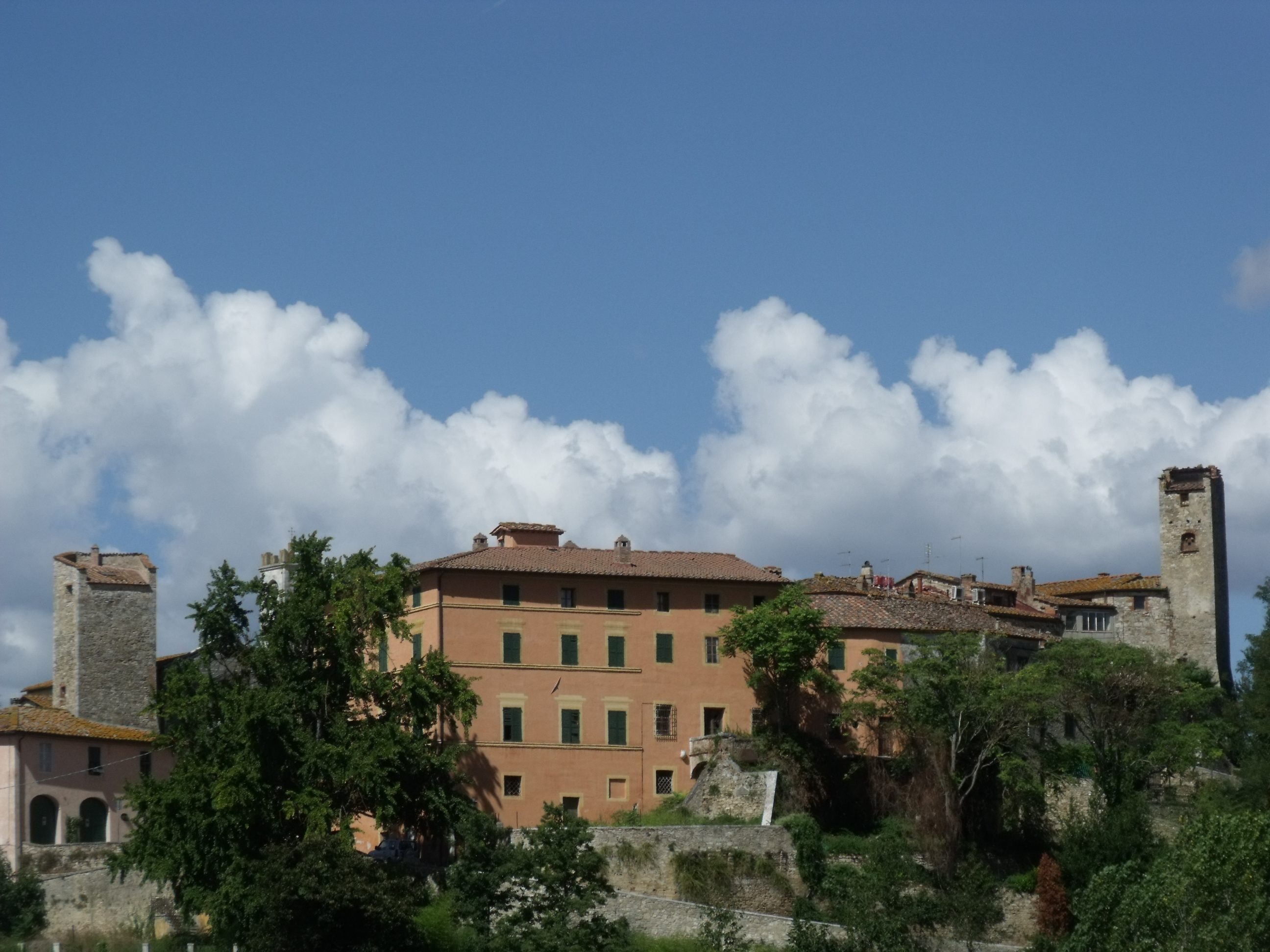 Panorama of Armaiolo, hamlet of Rapolano Terme, Crete Senesi, Province of Siena, Tuscany, Italy